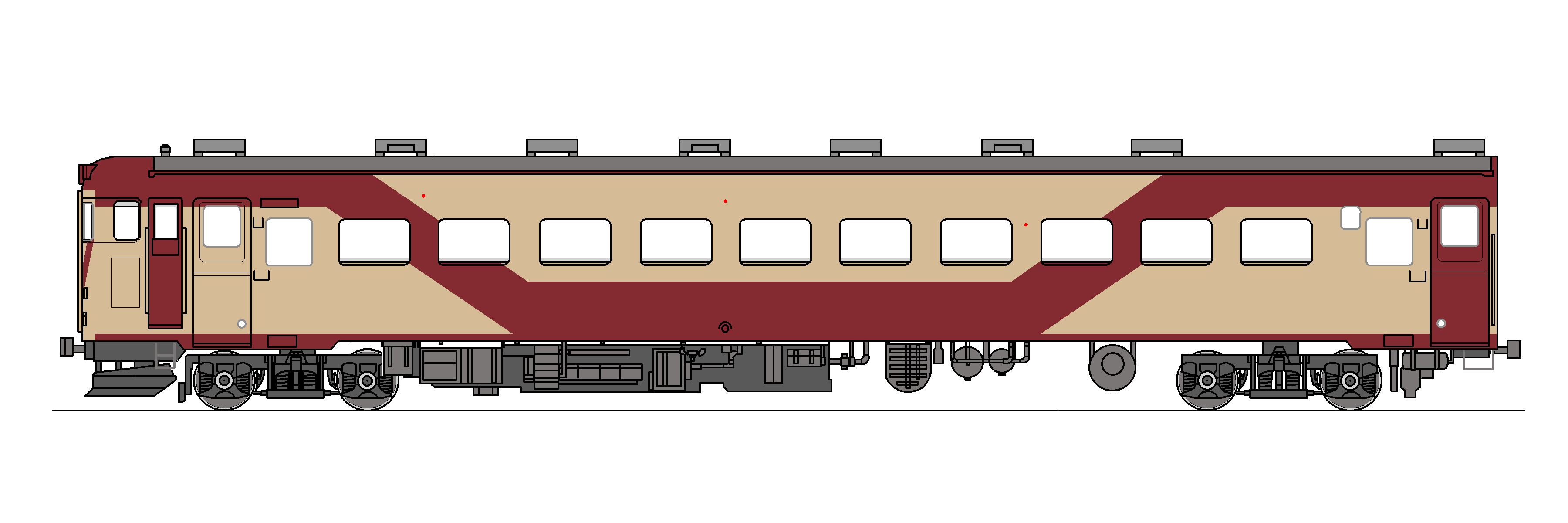 The side view of the DMU type 29 of JNR, Japanese style Car "Kyutsurogi".